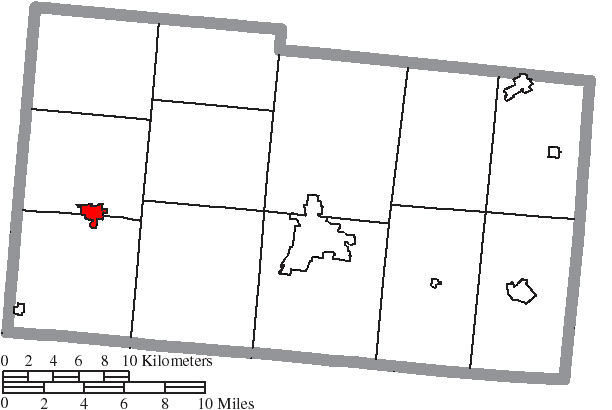 Map of the municipal and township boundaries of Champaign County, Ohio, United States, as of the 2000 census, with the location of the village of Saint Paris highlighted. Township borders are shown only in unincorporated areas in order to differentiate incorporated and unincorporated areas more clearly.